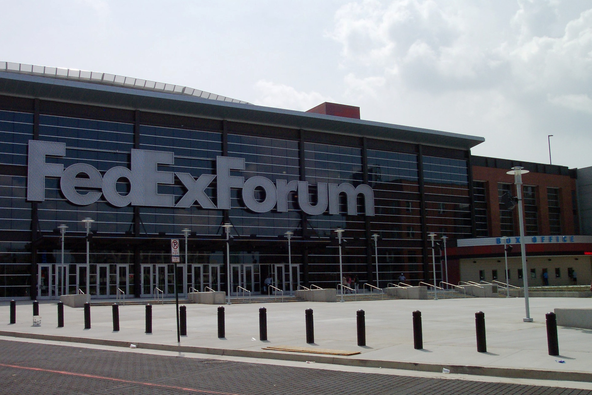 FedExForum in downtown Memphis, TN